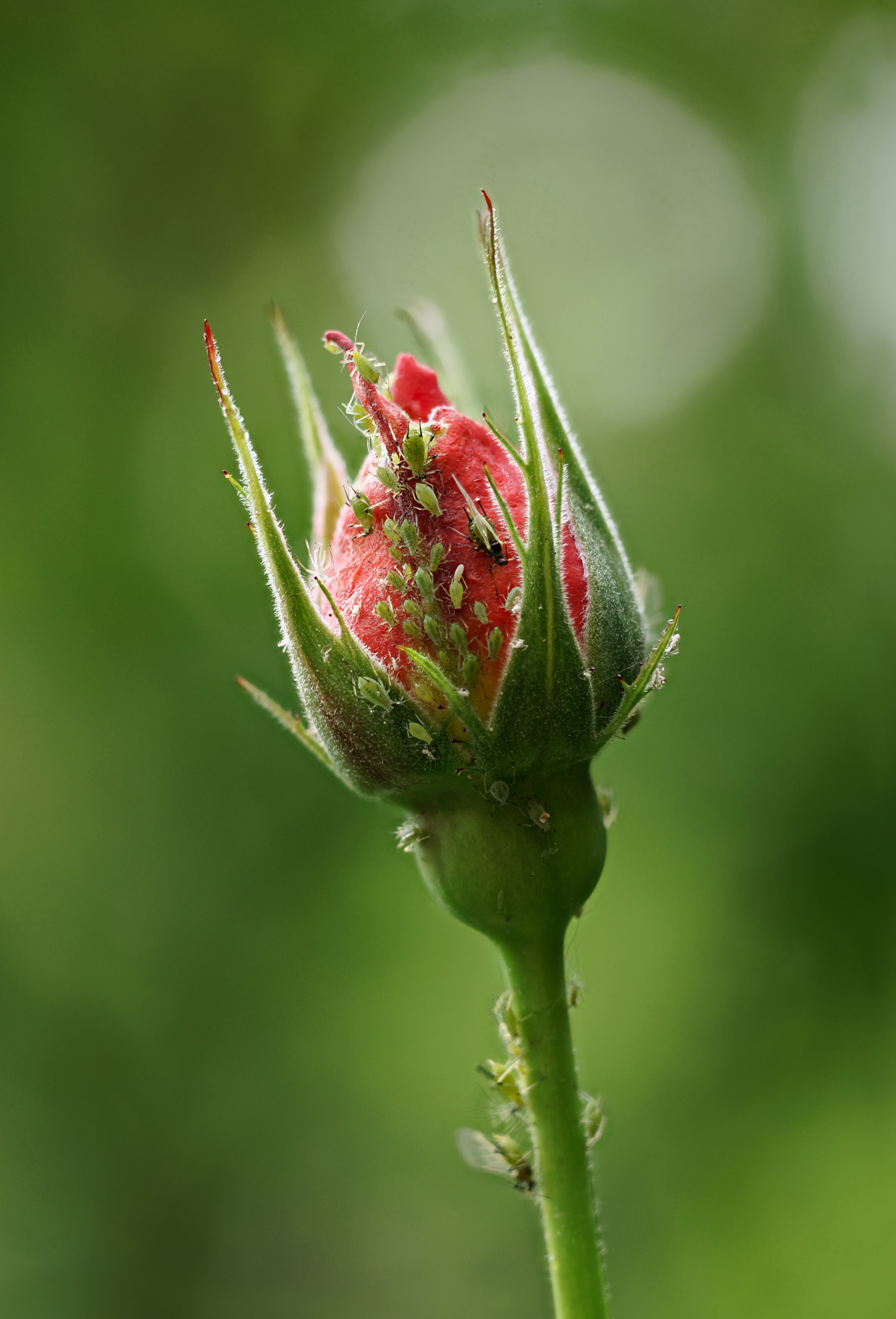 Macrosiphum rosae on a rose bud